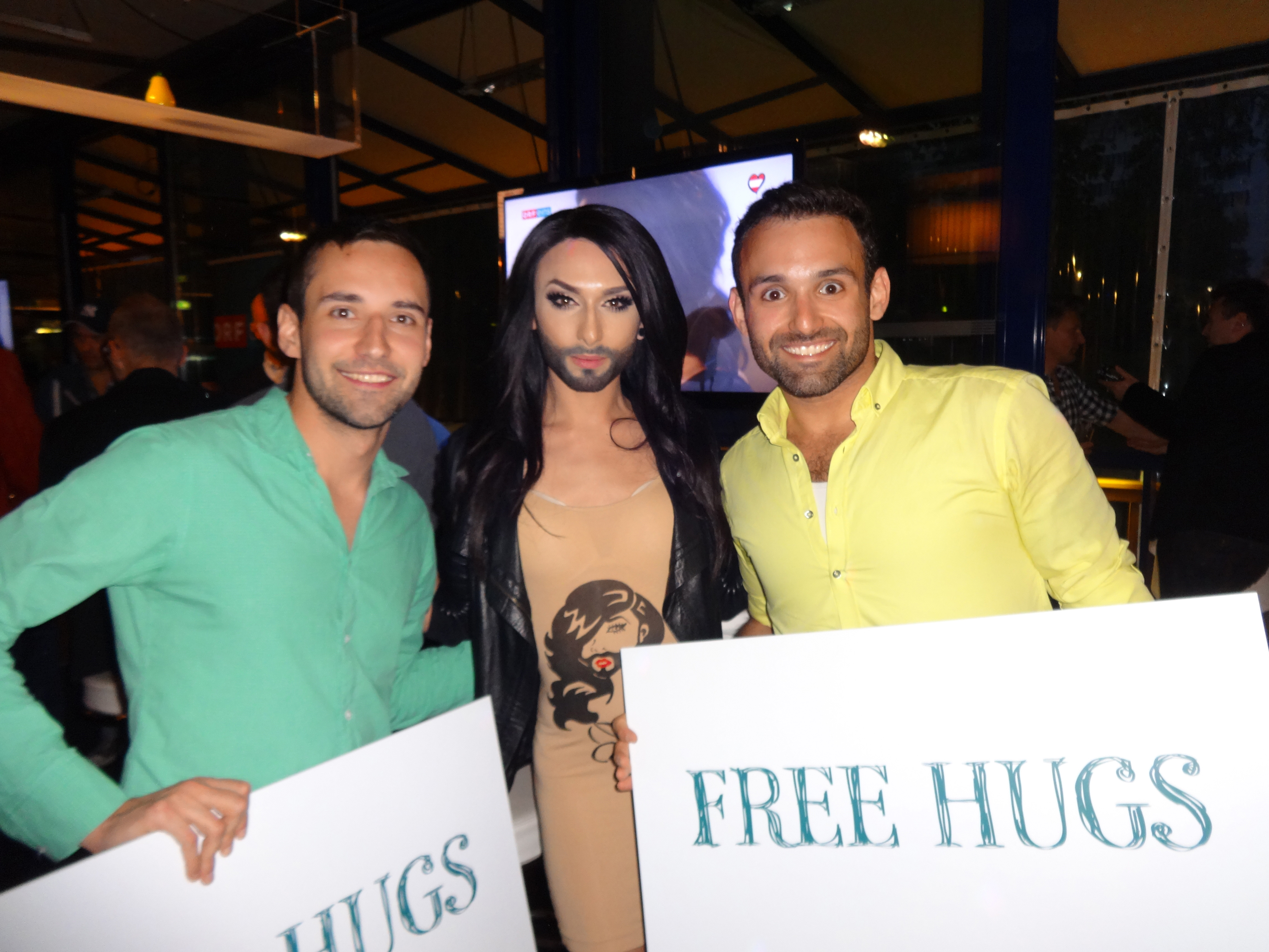 The huggers Thyago Ohana (right) and Alejandro Sosa (left) with Conchita Wurst (middle) as the 'Free Hugs Vienna' group supported Conchita Wurst's Tolerance Campaign on the way to her Eurovision Song Contest 2014 Victory